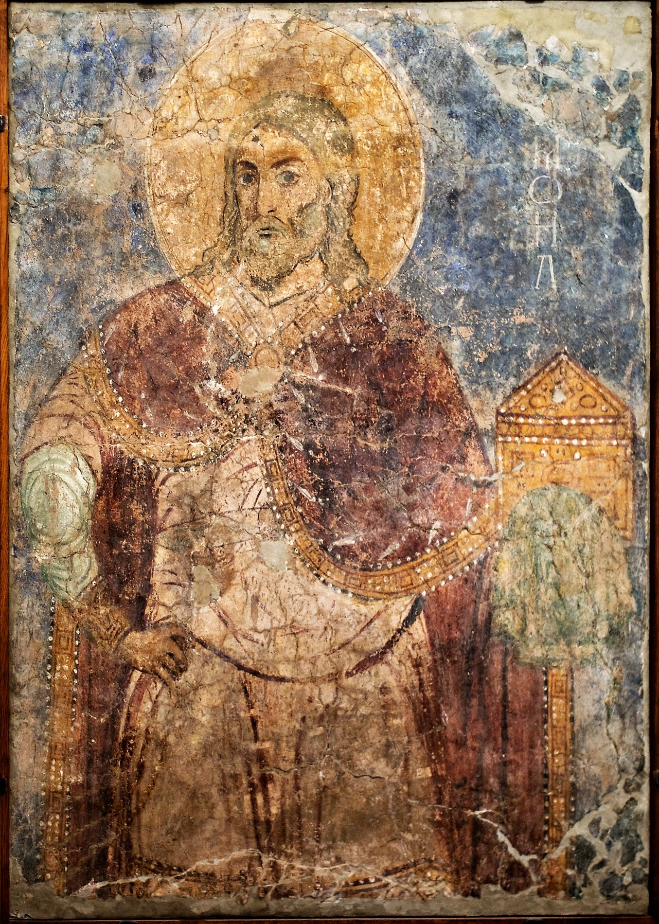 THE PROPHET SAMUEL. The Fresco Painting. Circa 1112 From the Mikhailovskr Monastery of Kiev